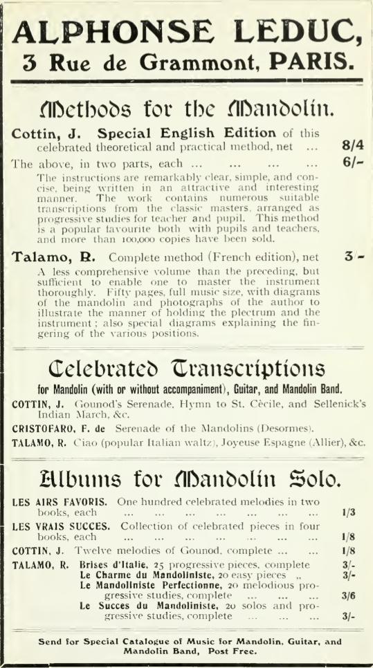 Advertisements for mandolin music and instruction books from 1914.